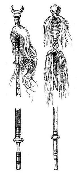 Bunchuk )also known as Tug or Kutas)